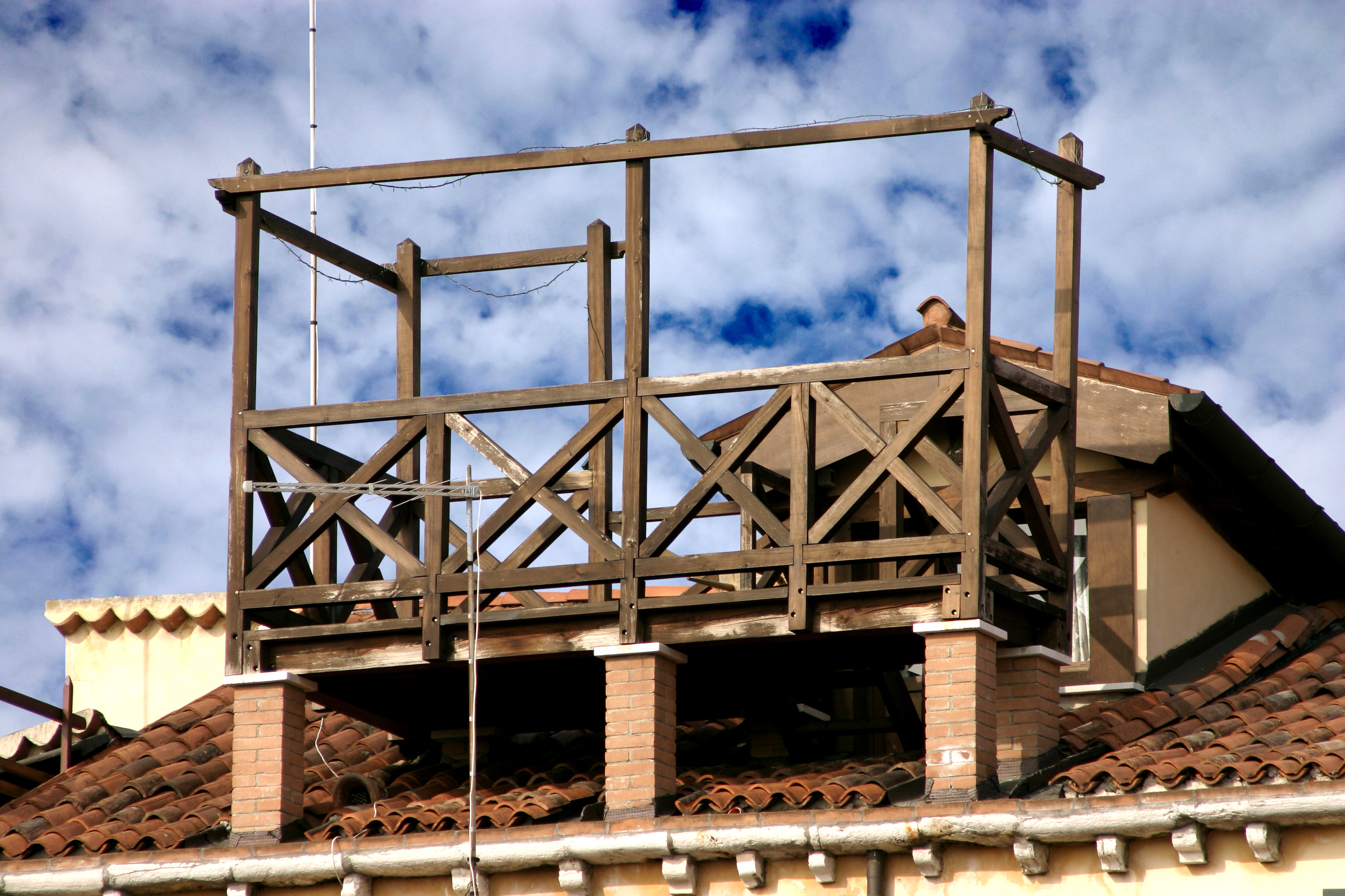 Venice – Tipical terrace on the roof